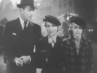 Cropped screenshot of Brian Aherne, Carole Lombard and Anne Shirley from the trailer for the film Vigil in the Night